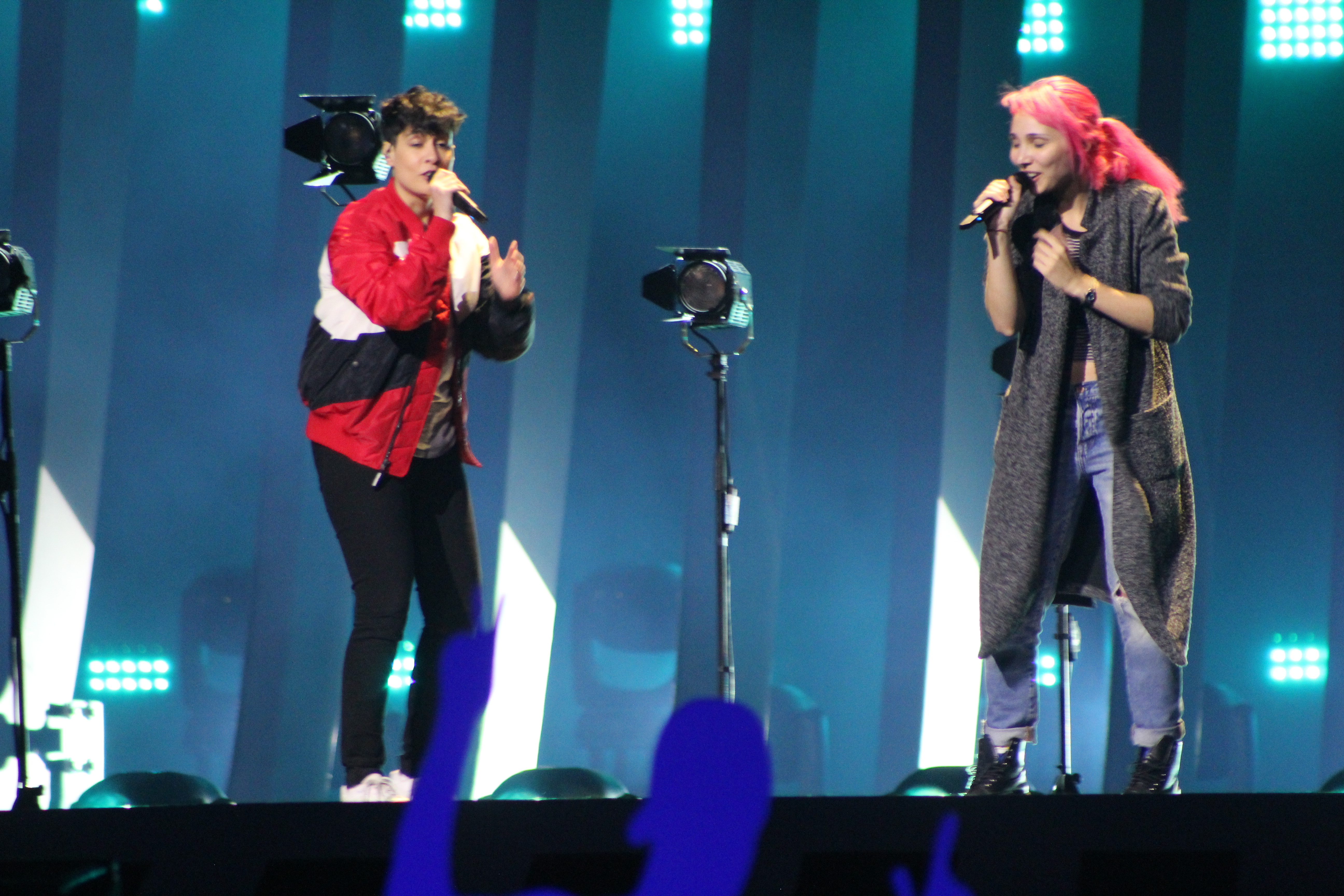 Cláudia Pascoal performing at Eurovision 2018